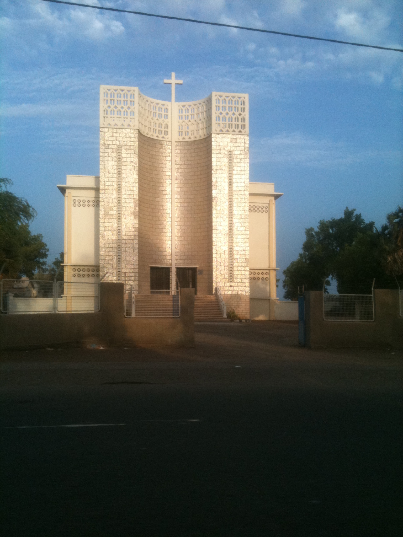 Eglise/Church in Djibouti (city)